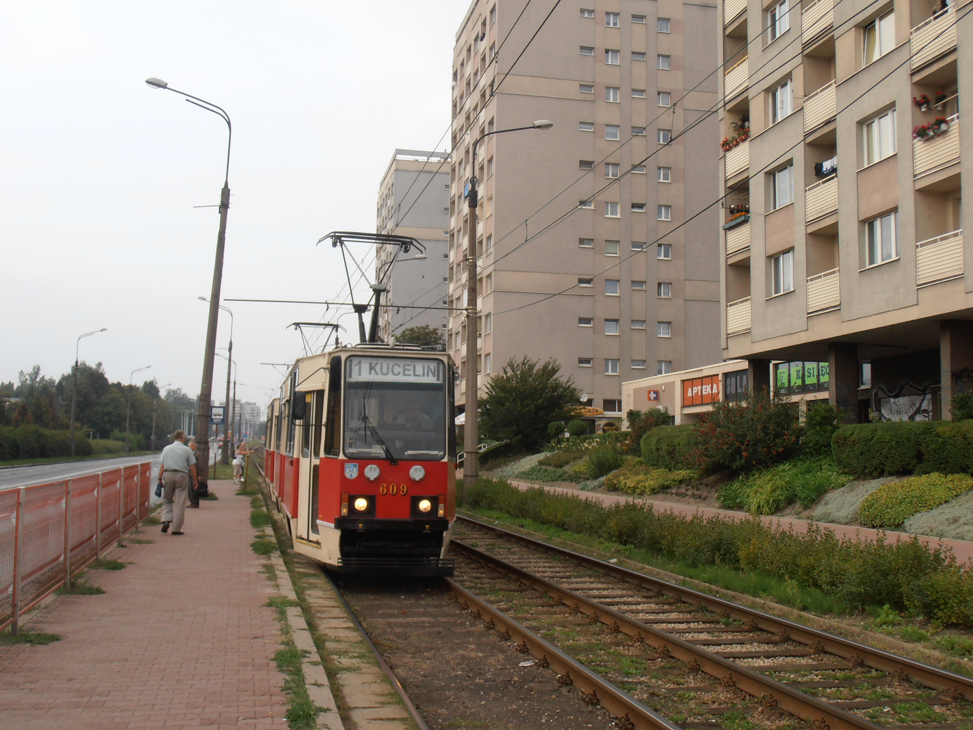 105Na tram on Armii Krajowej Avenue, Częstochowa